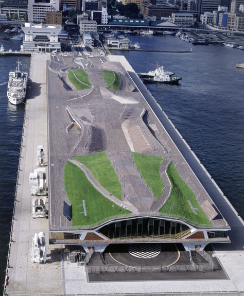 This is an aerial photograph of the Yokohama International Passenger Terminal.